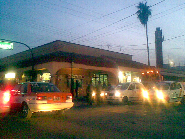 Gomez Palacio's city Main Market.